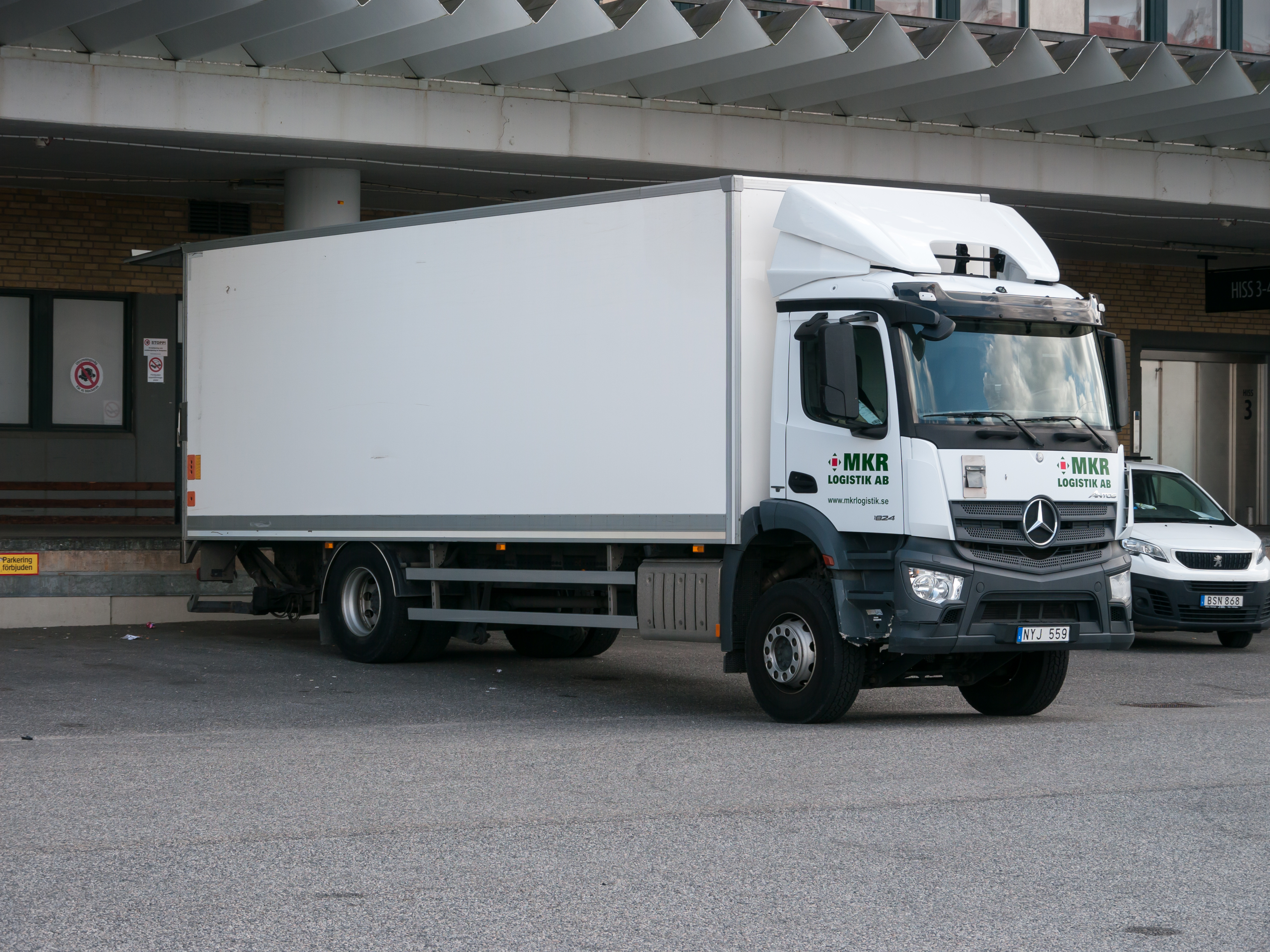 Mercedes-Benz Antos in Stockholms frihamn